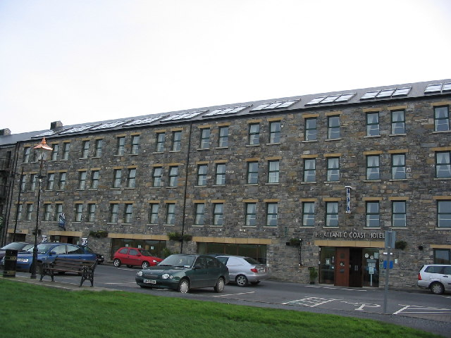 Atlantic Coast Hotel, Westport. Restored mill buildings converted to modern hotel in Westport, Co. Mayo.